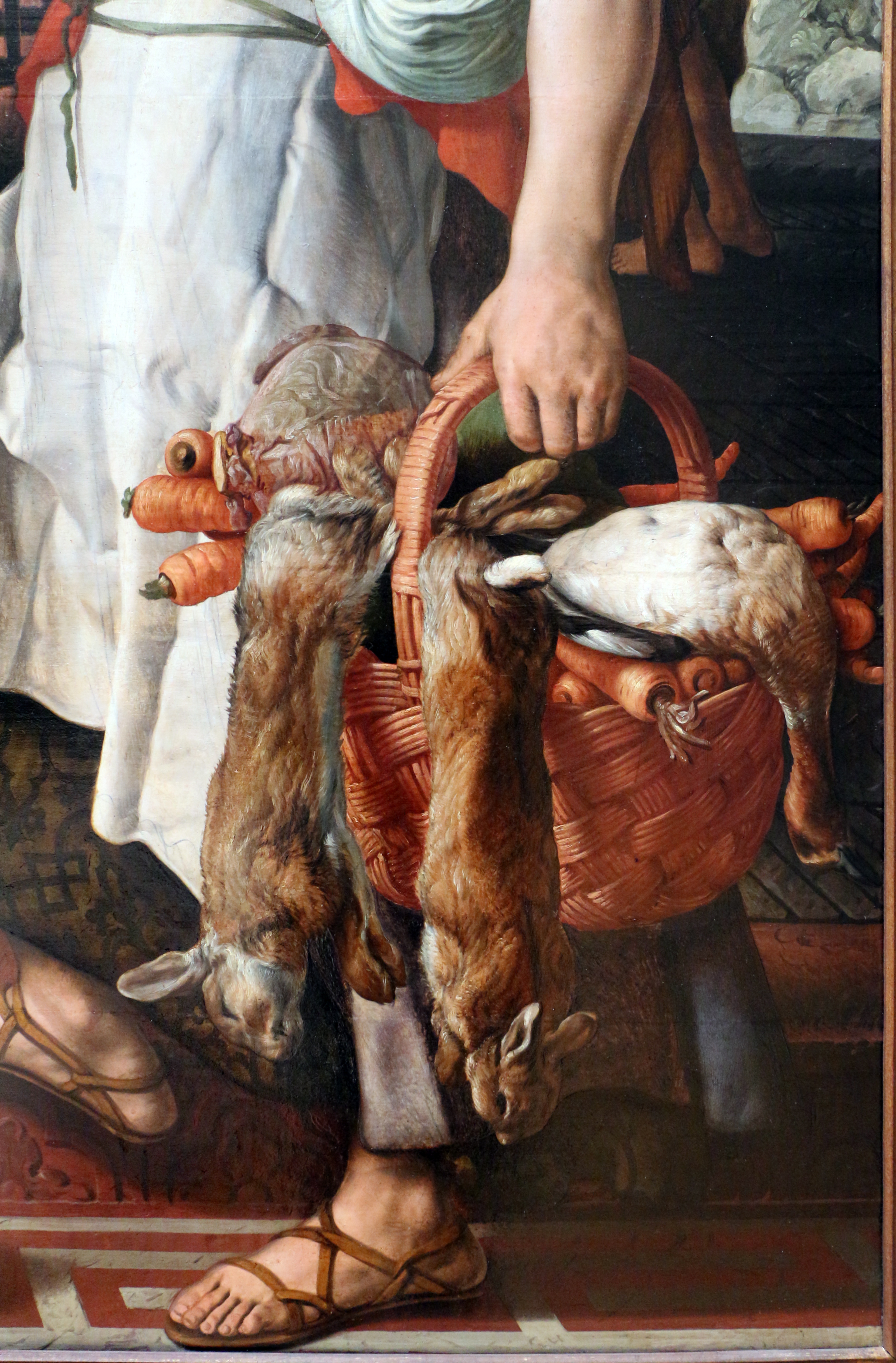 Dutch paintings in the Royal Museums of Fine Arts of Belgium